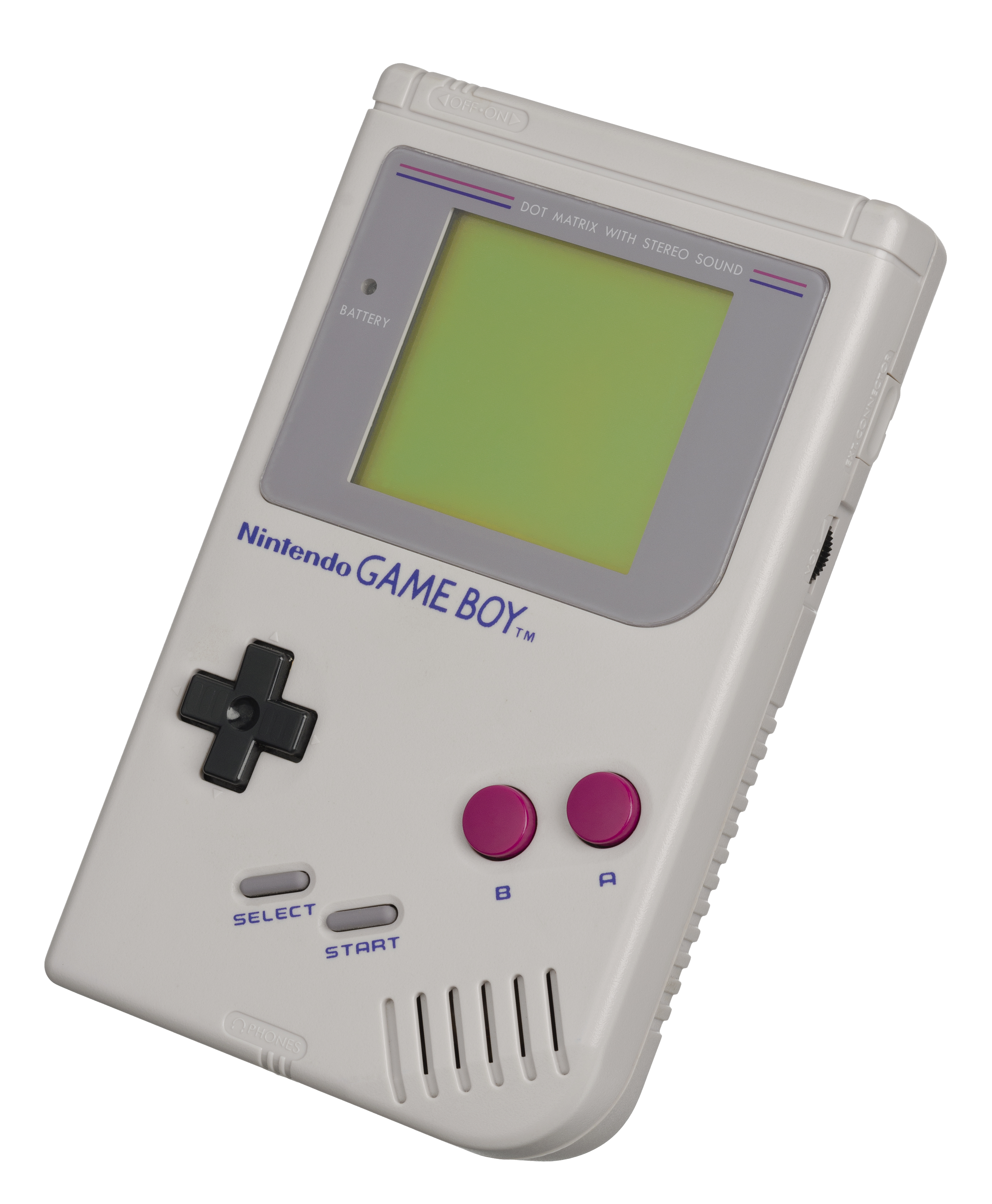 The Nintendo Game Boy, a handheld gaming console released in 1989. The relatively simple and monochrome Game Boy faced off against multiple handhelds and dominated the portable gaming market for almost a decade. This system has a 4.19 MHz CPU, a 4-shade LCD and ran off of 4 AA batteries. It was a very long-running system, only seeing a minor upgrade with the Game Boy Pocket in 1996, then later the Game Boy Color in 1998.